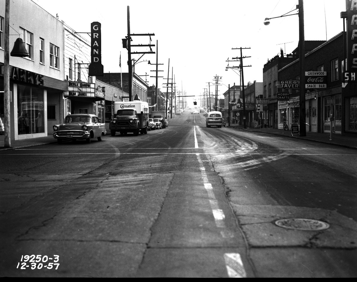 Greenwood neighborhood of Seattle, Washington 1957. Looking east on 85th from Palatine; the first intersection would be Greenwood Ave. The theater is still there, it's now Taproot. Item 56421, Engineering Department Photographic Negatives (Record Series 2613-07), Seattle Municipal Archives.